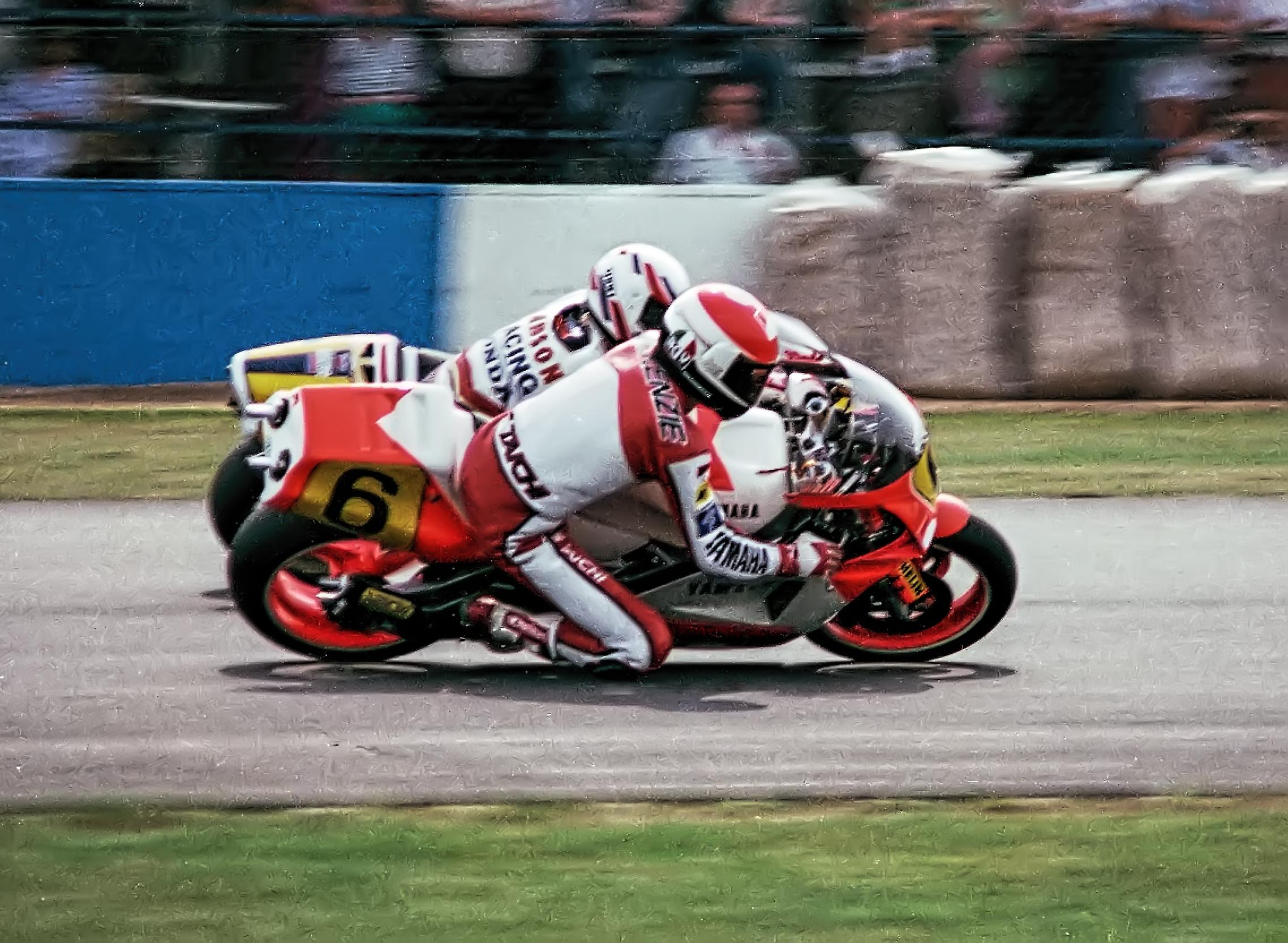 Niall Mackenzie, riding his Team Agostini Marlboro Yamaha, battling with the Kanemoto Rothmans Honda of Eddie Lawson at the 1989 British Grand Prix.